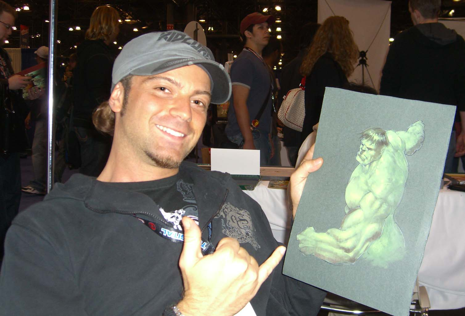 Comic book creator Lucio Parrillo at the New York Comic Convention in Manhattan, April 20, 2008.